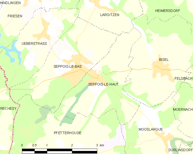 Map of French municipality